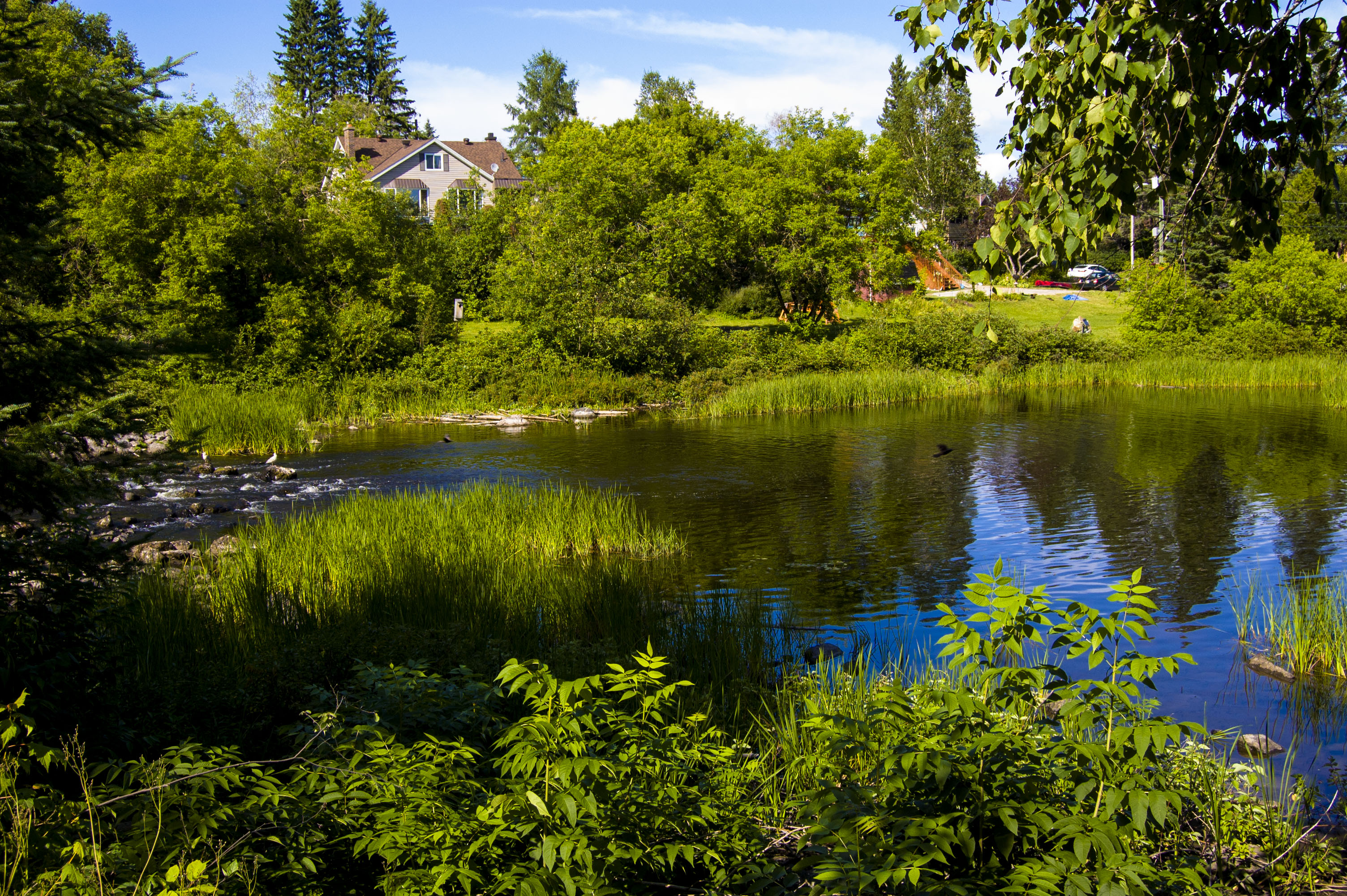 Swastika Fireman's Park